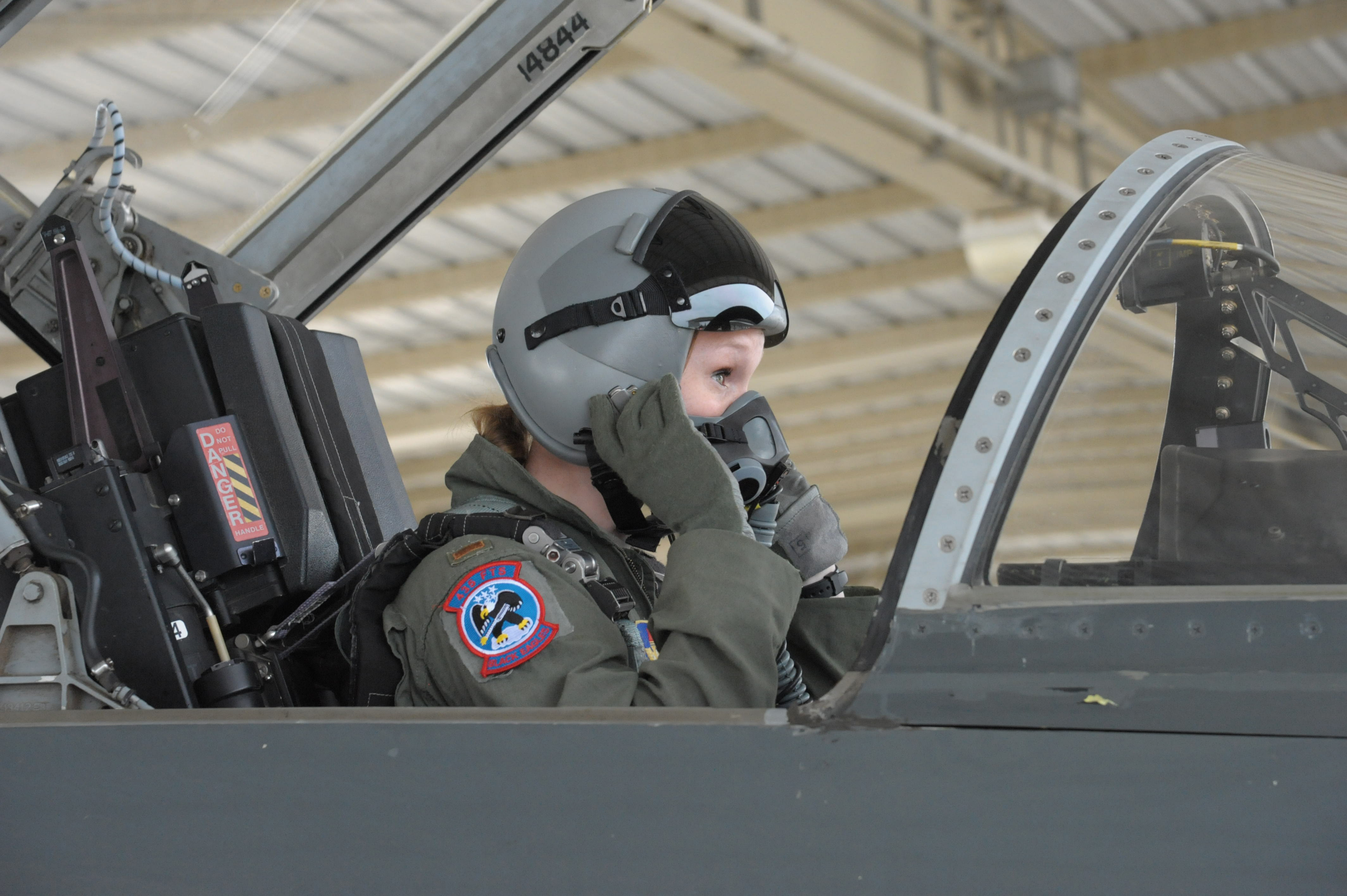 Second Lt. Kinder McCullough, 435th Fighter Training Squadron instructor pilot student, adjusts her mask and helmet during a pre-flight checklist before a training flight April 8, 2015 at Joint Base San Antonio-Randolph, Texas. The 435th Fighter Training Squadron, with a heritage that dates back to the World War II-era 435th Fighter Squadron, is the only unit at JBSA-Randolph that trains the Air Force’s newest aviators to become fighter pilots. The squadron’s two-fold mission is to forge up to 150 fighter pilots and weapon systems officers annually – including international students – and to mold experienced fighter pilots and WSOs into instructors for Air Education and Training Command’s Introduction to Fighter Fundamentals courses. (U.S. Air Force photo by Joel Martinez/ Released)